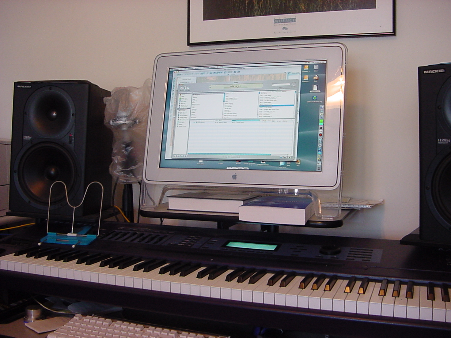 My dad's music setup. Powering that computer in the photo is a Macintosh G4, but the computer has since been upgraded. Macintosh G4 Kurzweil K2600 Mackie HR824